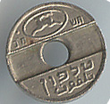 An israeli telephone token used until late 1980s.